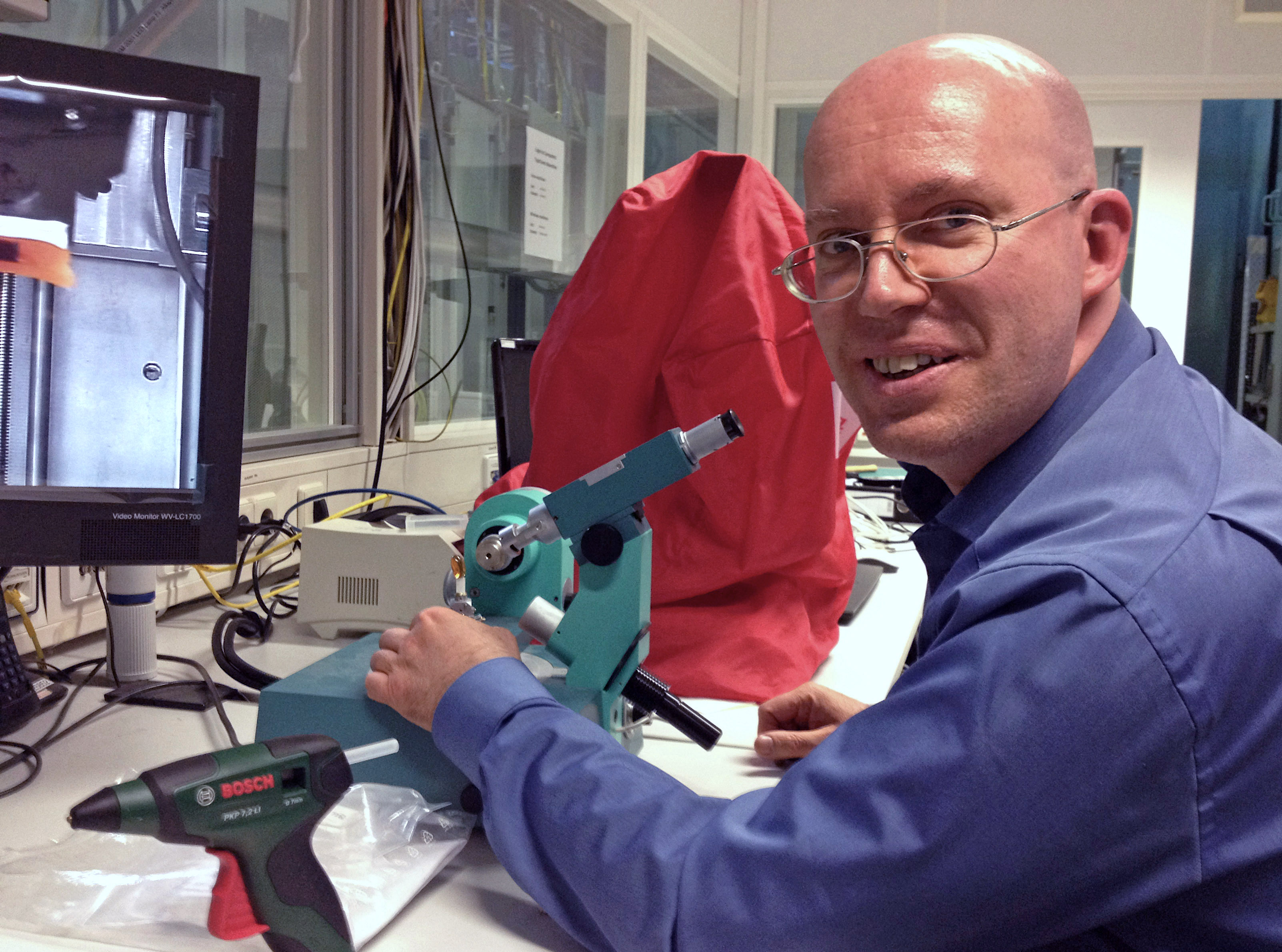 German paleontologist Dr. Günter Bechly at work on Oct. 30 2013, studying inclusions in mid-Cretaceous Burmese amber with micro-CT at the synchrotron facility of KIT in Karlsruhe / Germany